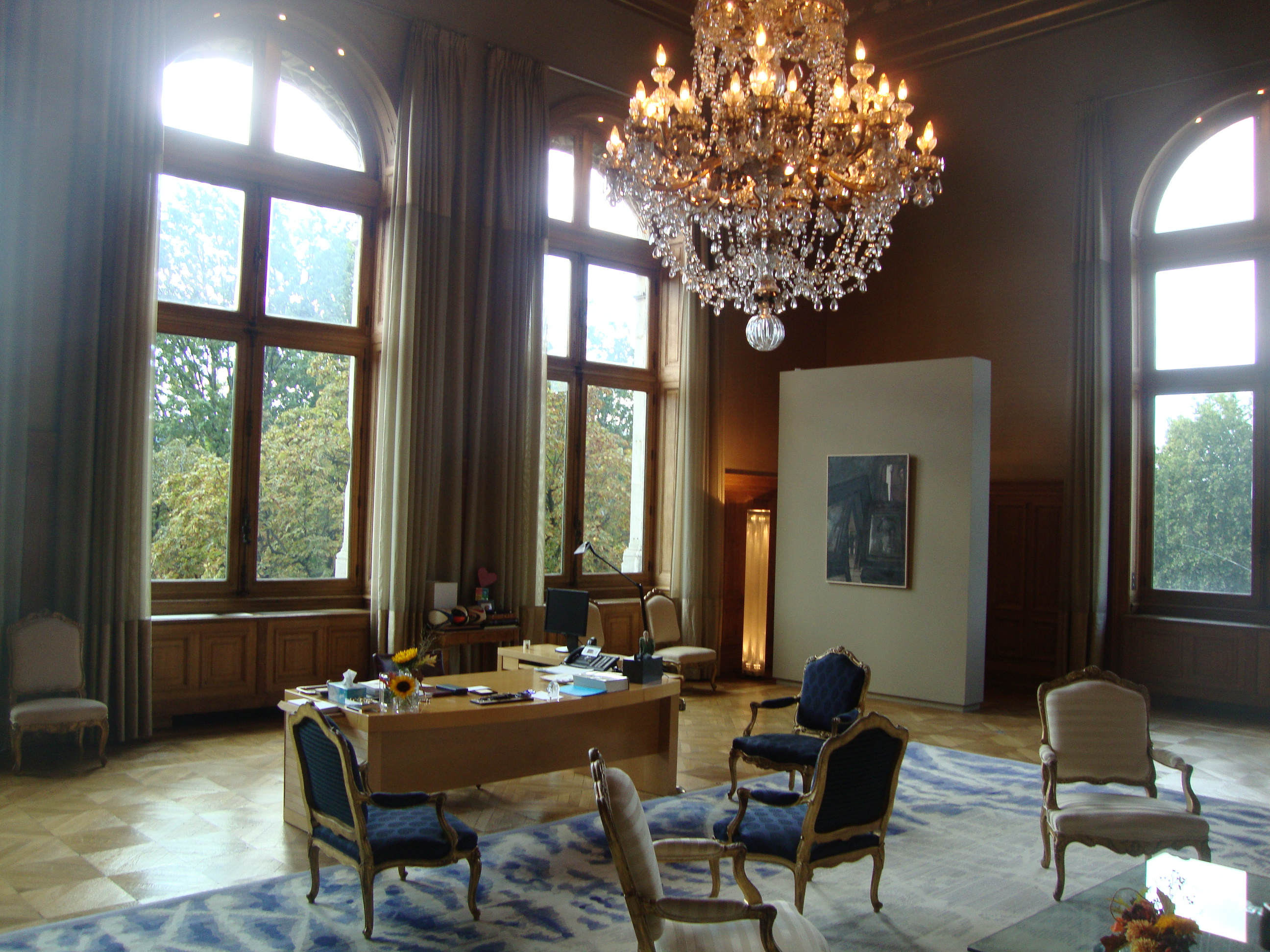 The office of the Mayor of Paris, during the European Heritage days 2010.